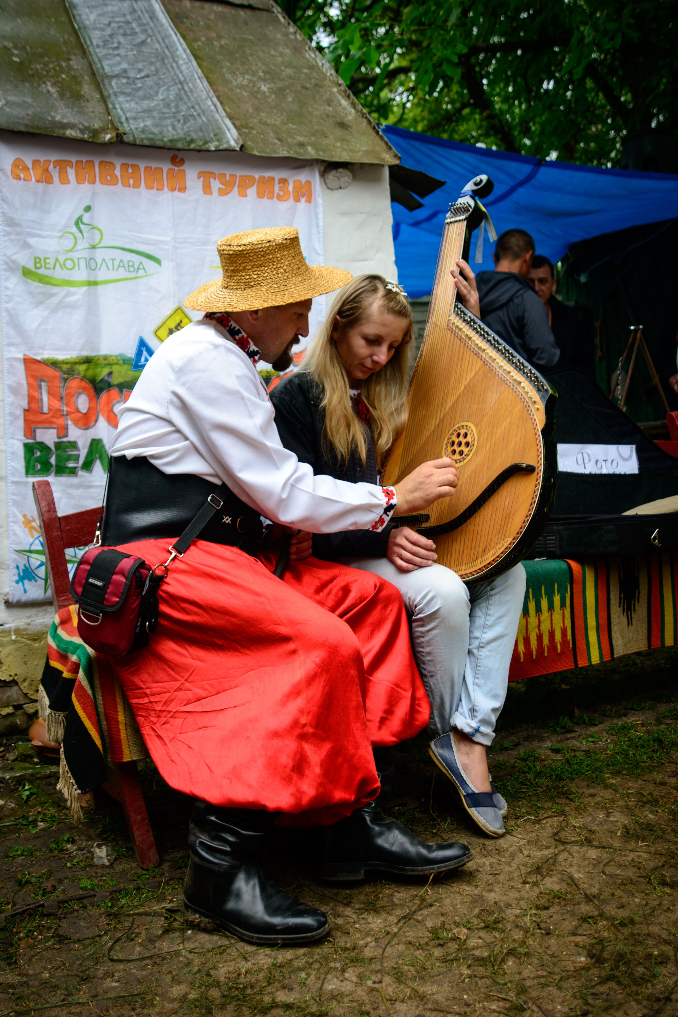 Wikiexpedition to Fest "Borschyk in clay pot". Poltava region